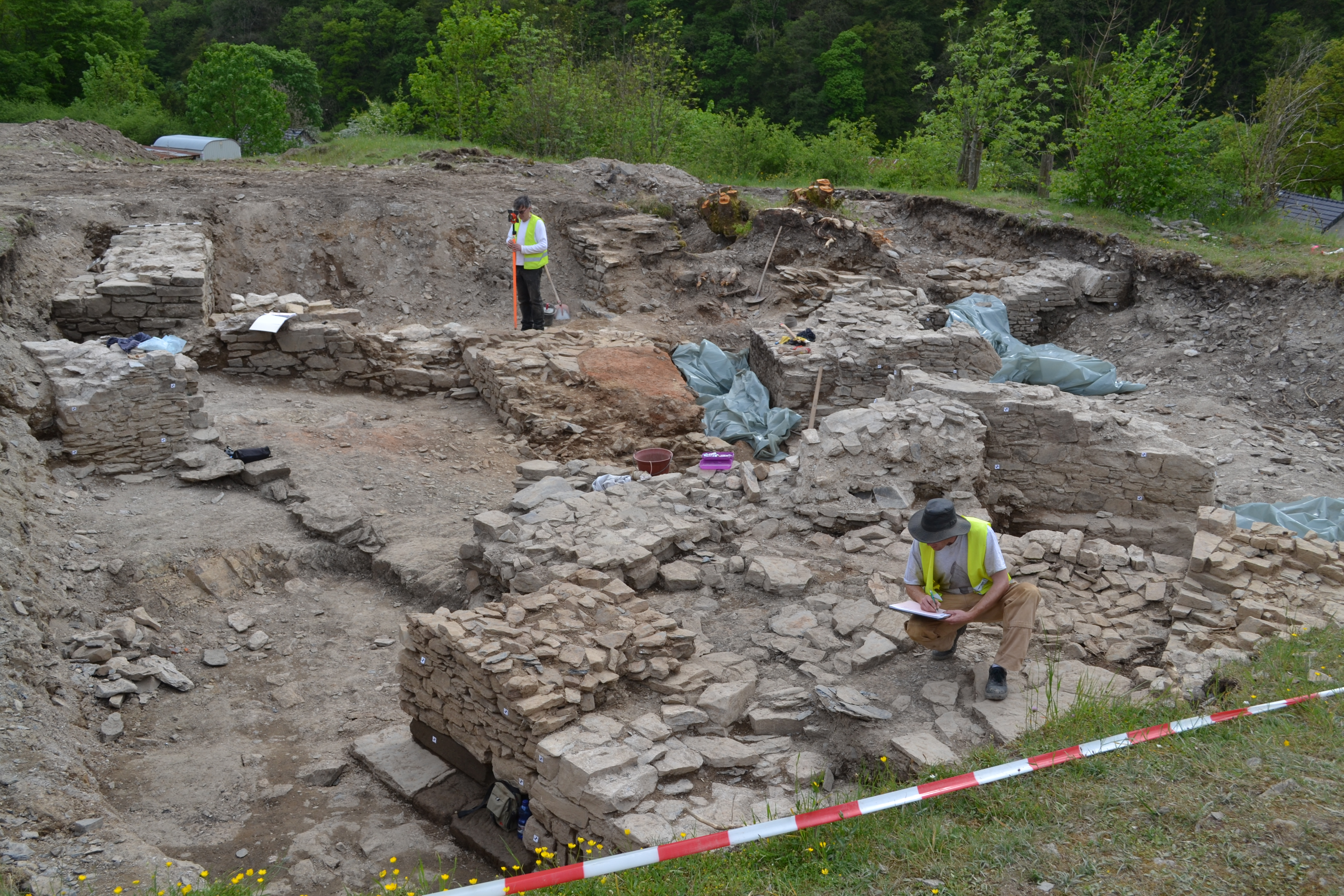 Excavation site at Castle Ouren.